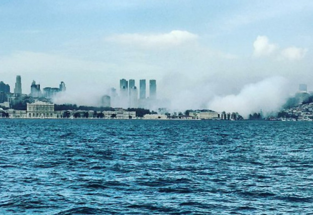 Besiktas District, view from Uskudar, at Inauguration Day